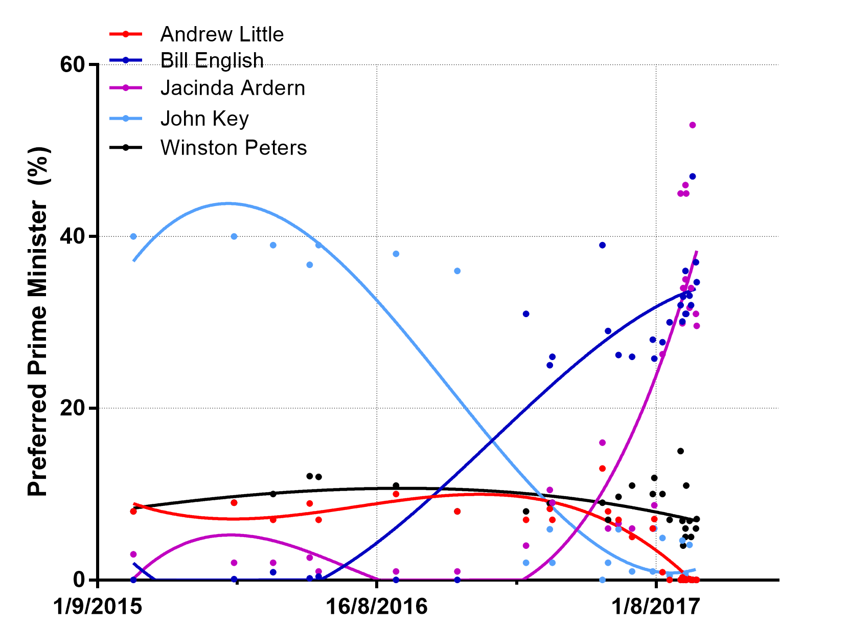 Preferred Prime Minister Poll of the 2017 New Zealand General Elections from July 2015 through to September 2017